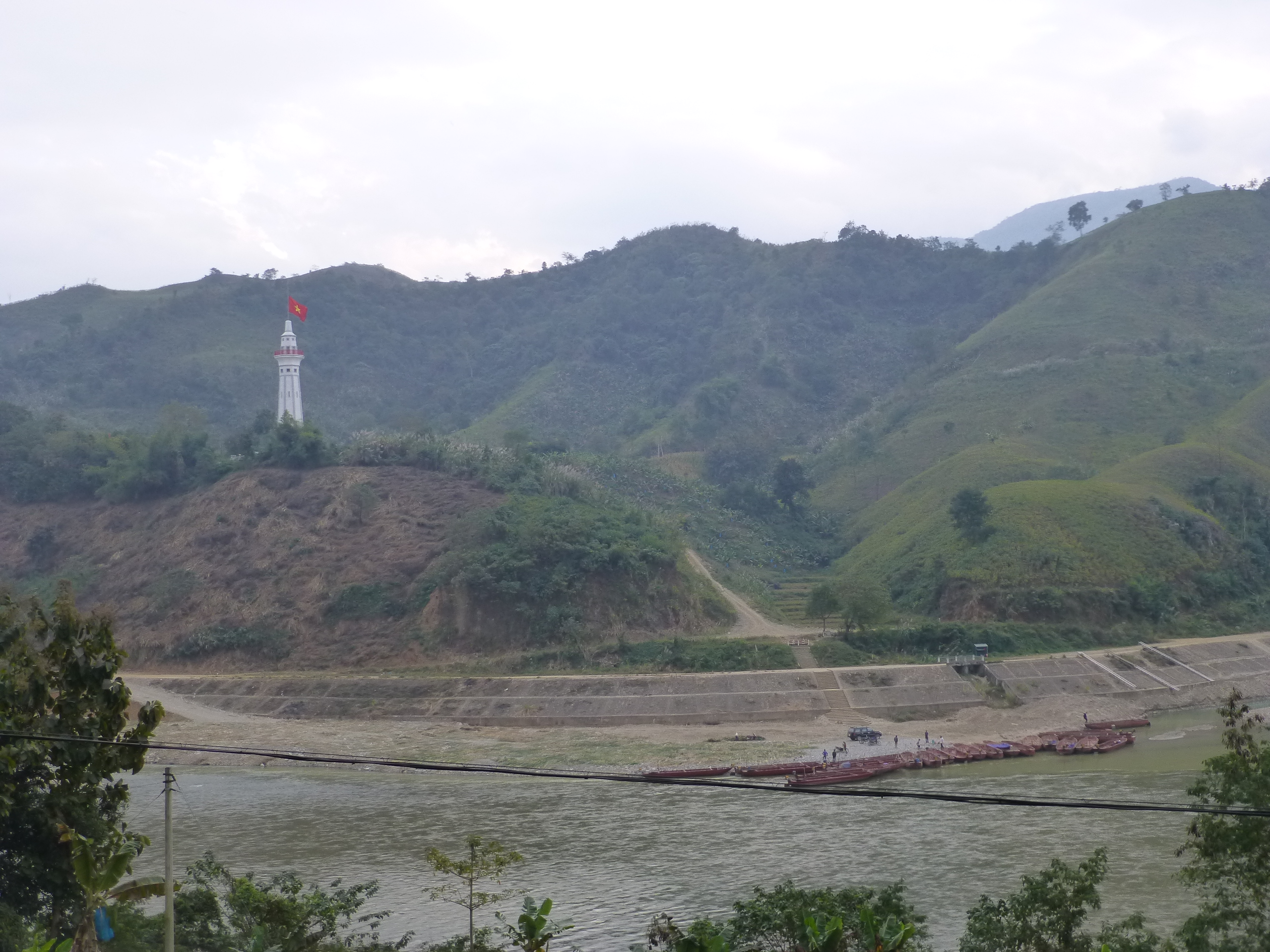 The confluence of the Longbao River (龙保河 and the Red River, near Wudaokou, Hekou County, Yunnan. This is the junction point of China's Hekou County (left bank of the Red River), China's Jinping County (between the two rivers), and Vietnam (right bank of the two rivers). There is a tall tower on the Vietnamese side